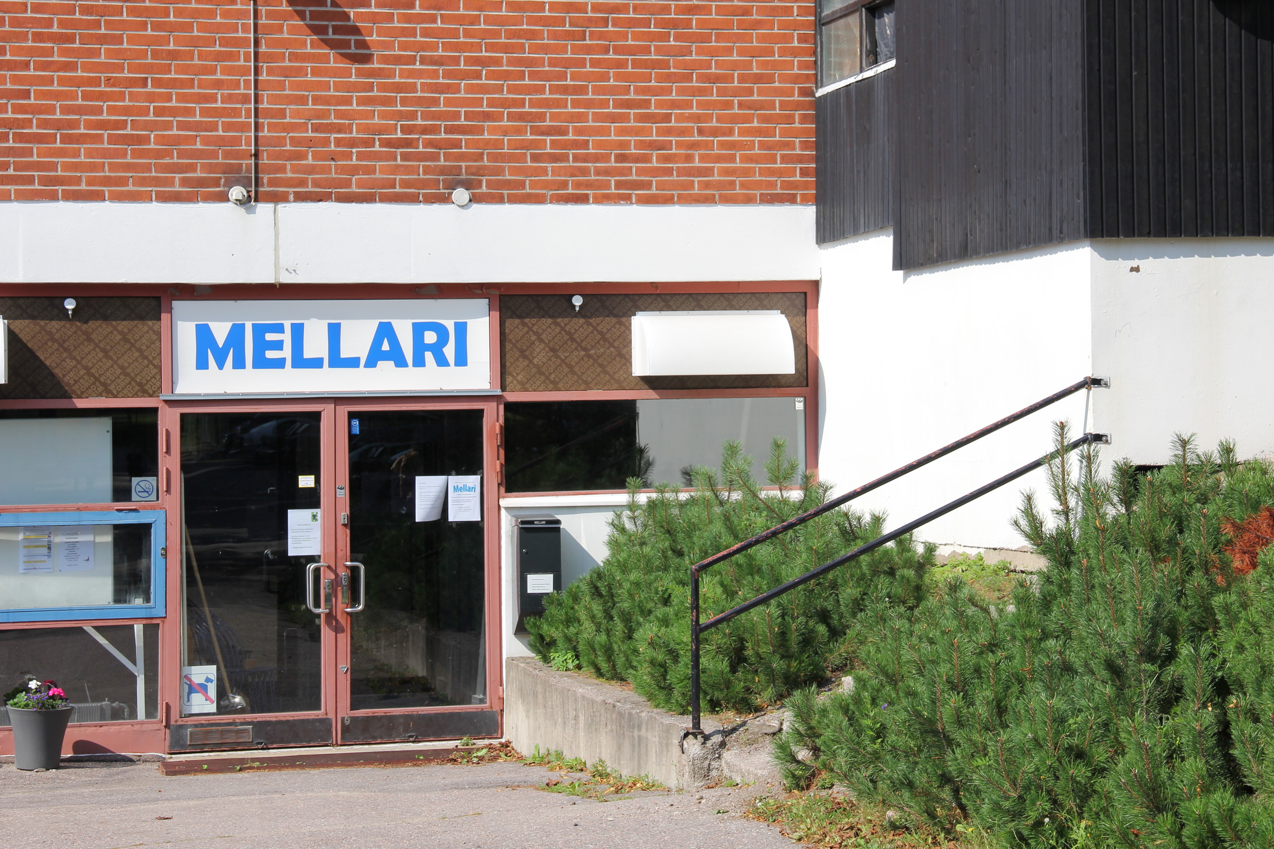 Mellari, Mellunmäki youth center for culture and recreation, Helsinki, Finland.